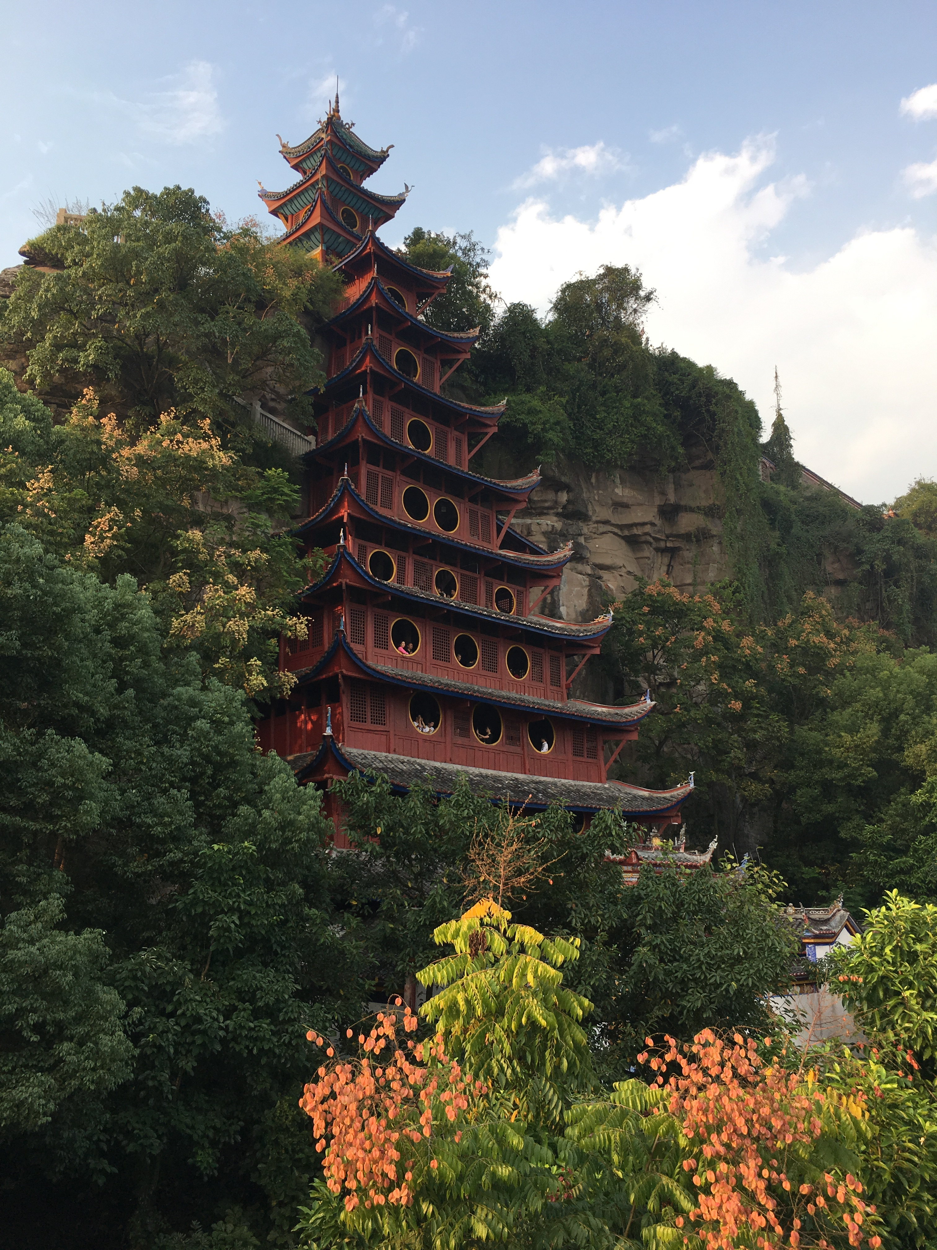 Shibaozhai along the Yangtze River, China in 2016